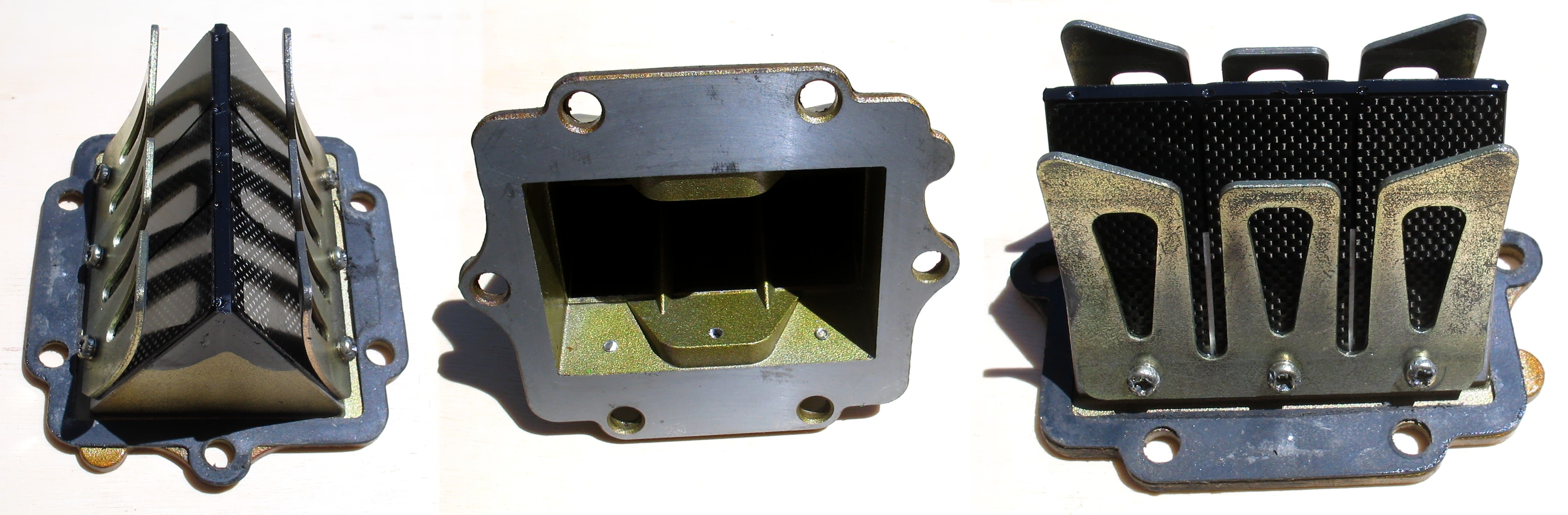 Reed valve of a Kawasaki KX 125 1989, marked by a sign indicating the correct position of installation